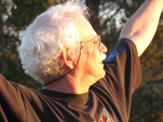 Bob Bossin in the light of sunset.